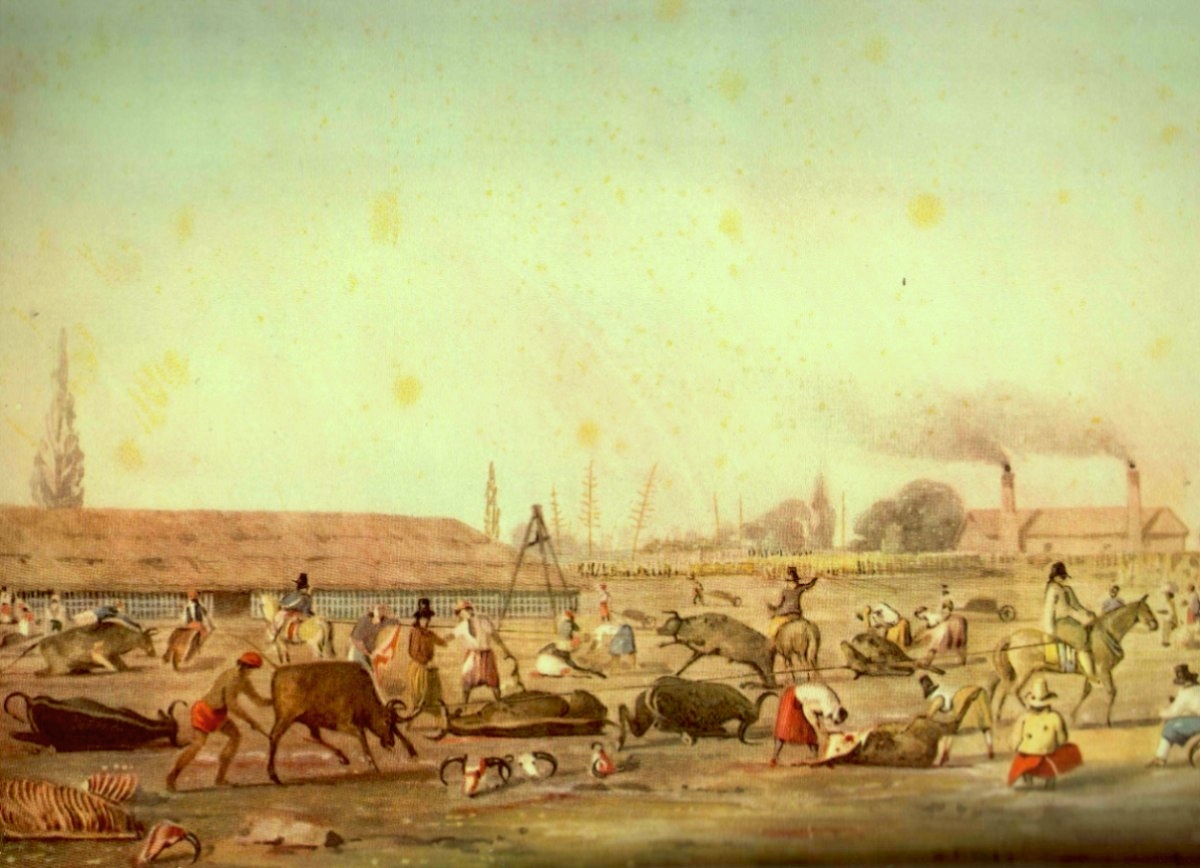 Buenos Aires "Matadero" (slaughterhouse) in 1829.